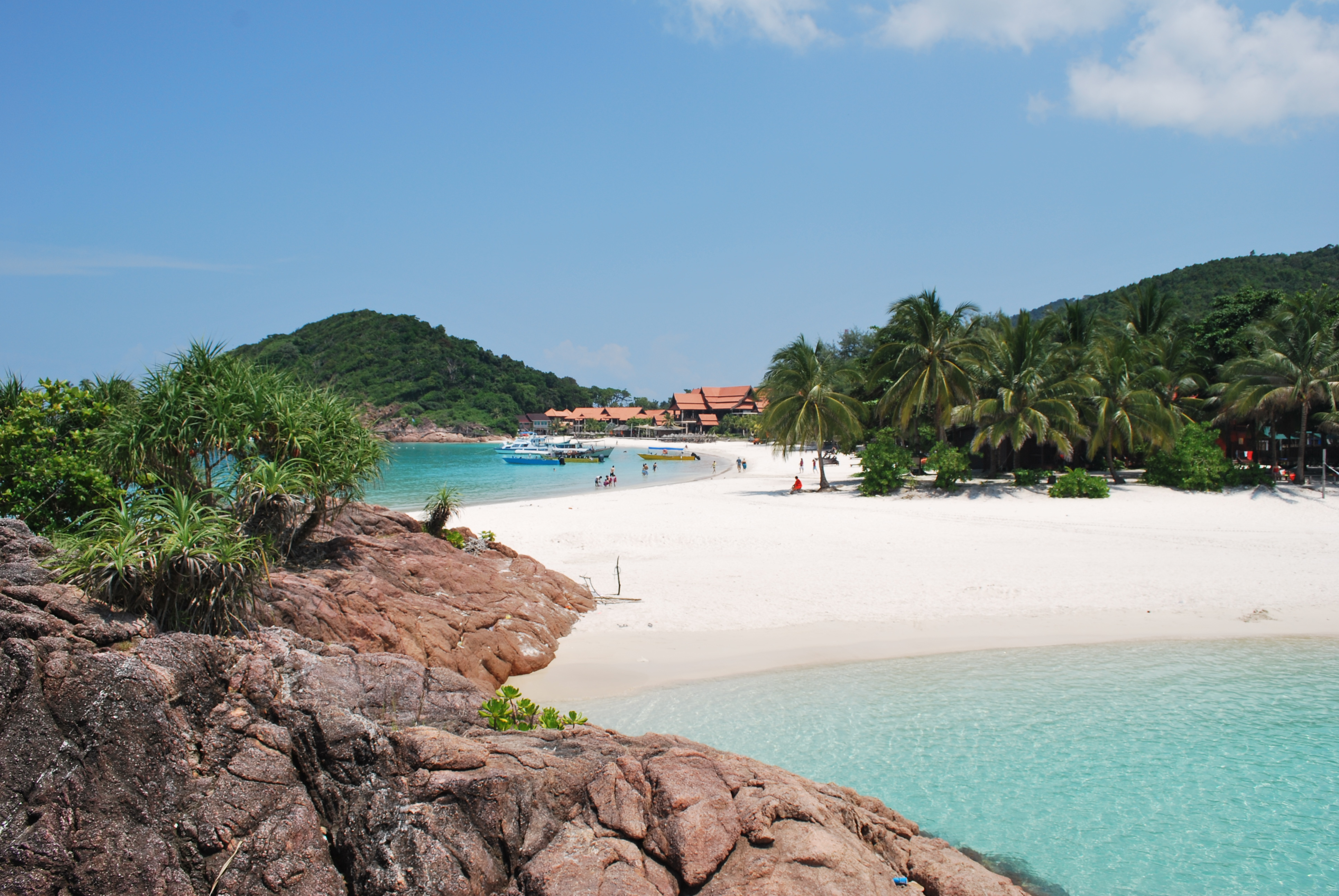 The Pasir Panjang Beach, with a magnificent view of the sea and tropical vegetation.